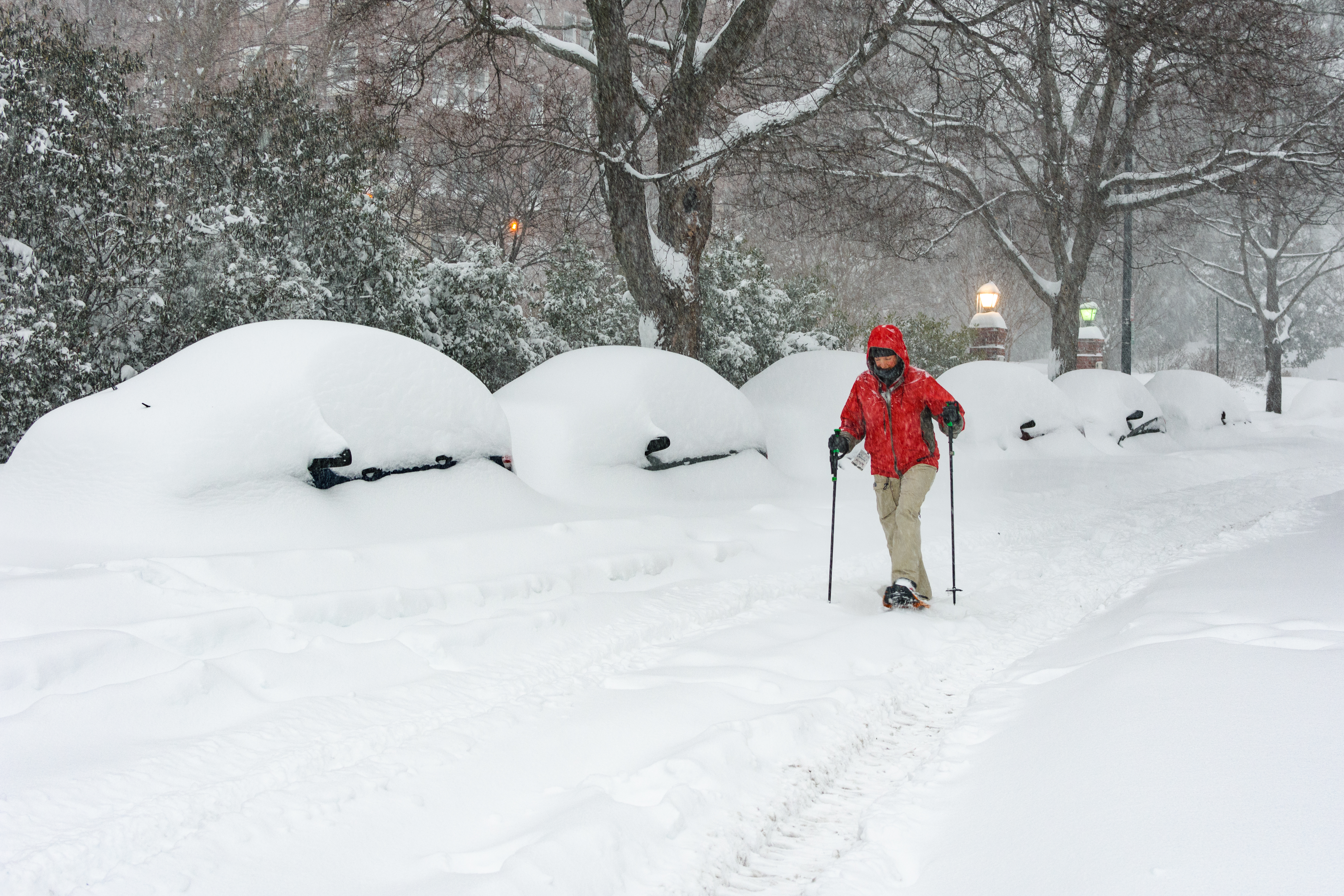 Buried cars and a passer-byer taken on Quebec St. just off Connecticut Ave. in Cleveland Park, NW DC.